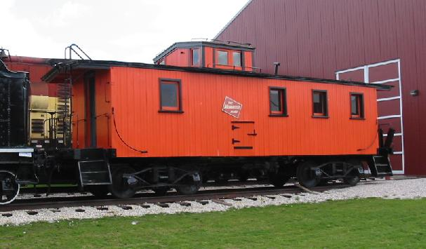 A former Milwaukee Road cupola caboose on display at the National Railroad Museum in Green Bay Photo by Sean Lamb (User:Slambo), April, 2004